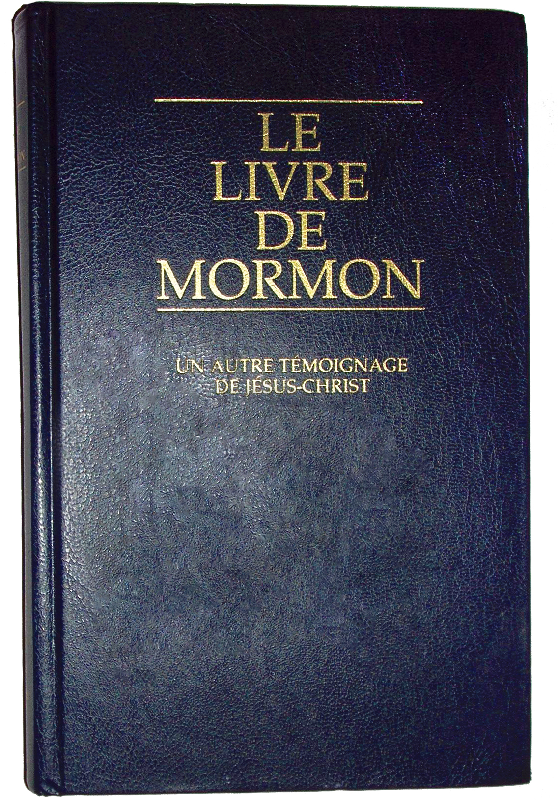 A French translation of the Book of Mormon.